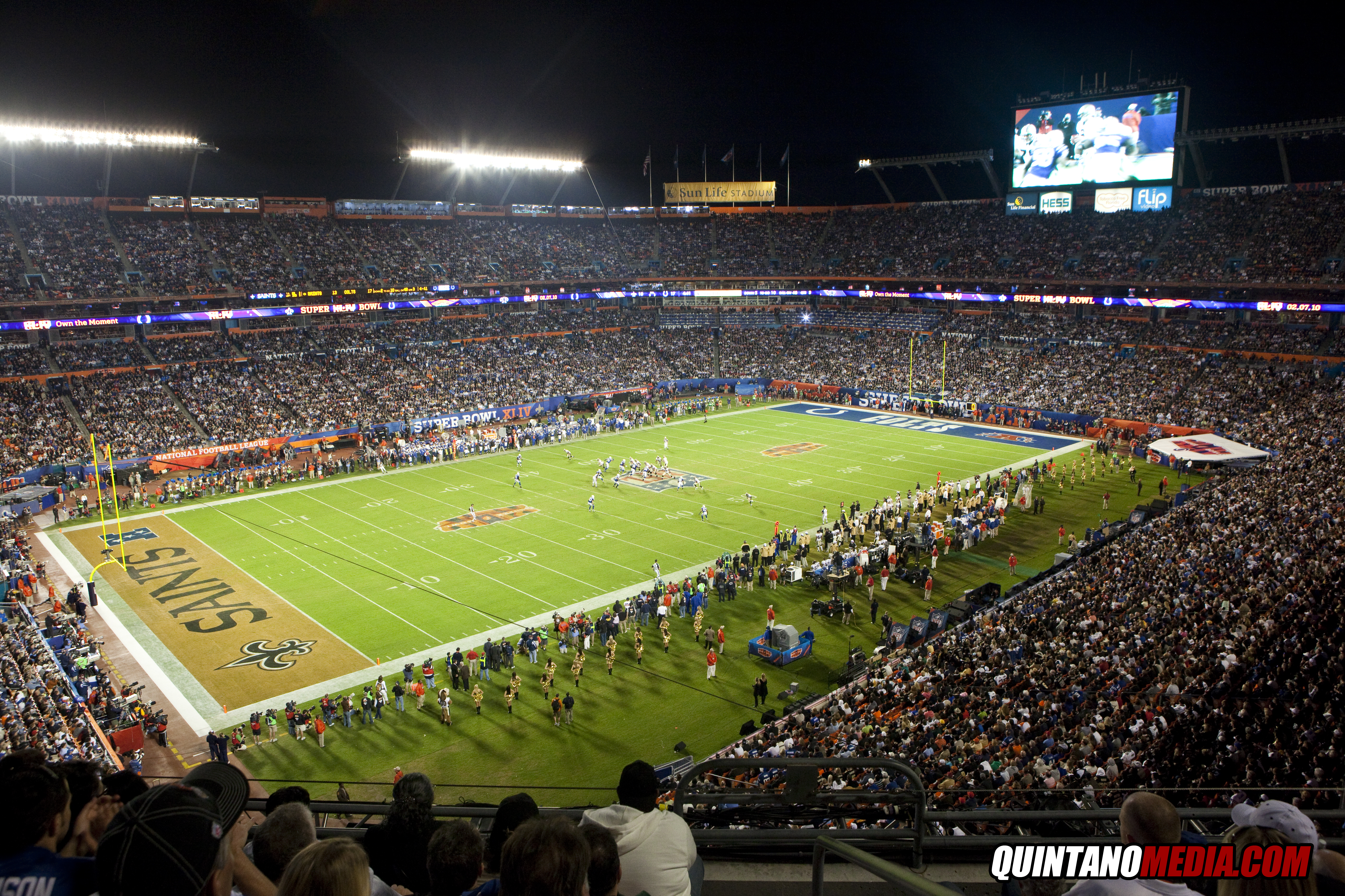 see more at